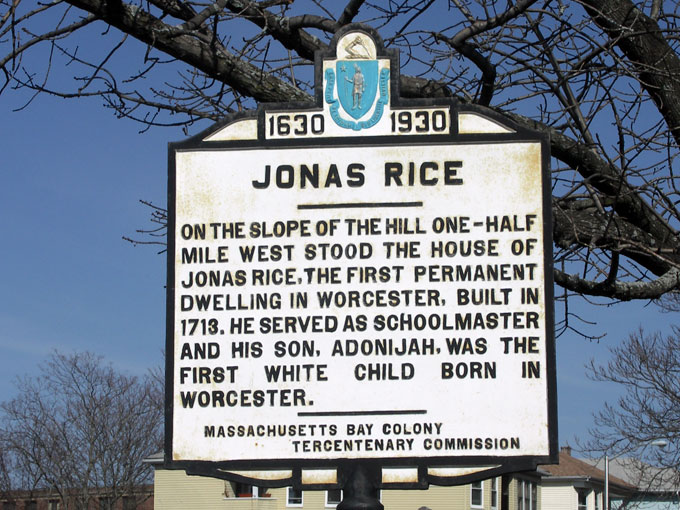 History and corner stone of Worcester Massachusetts